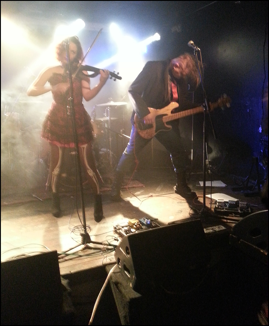 Fatum Aeternum, Israeli Gothic metal band